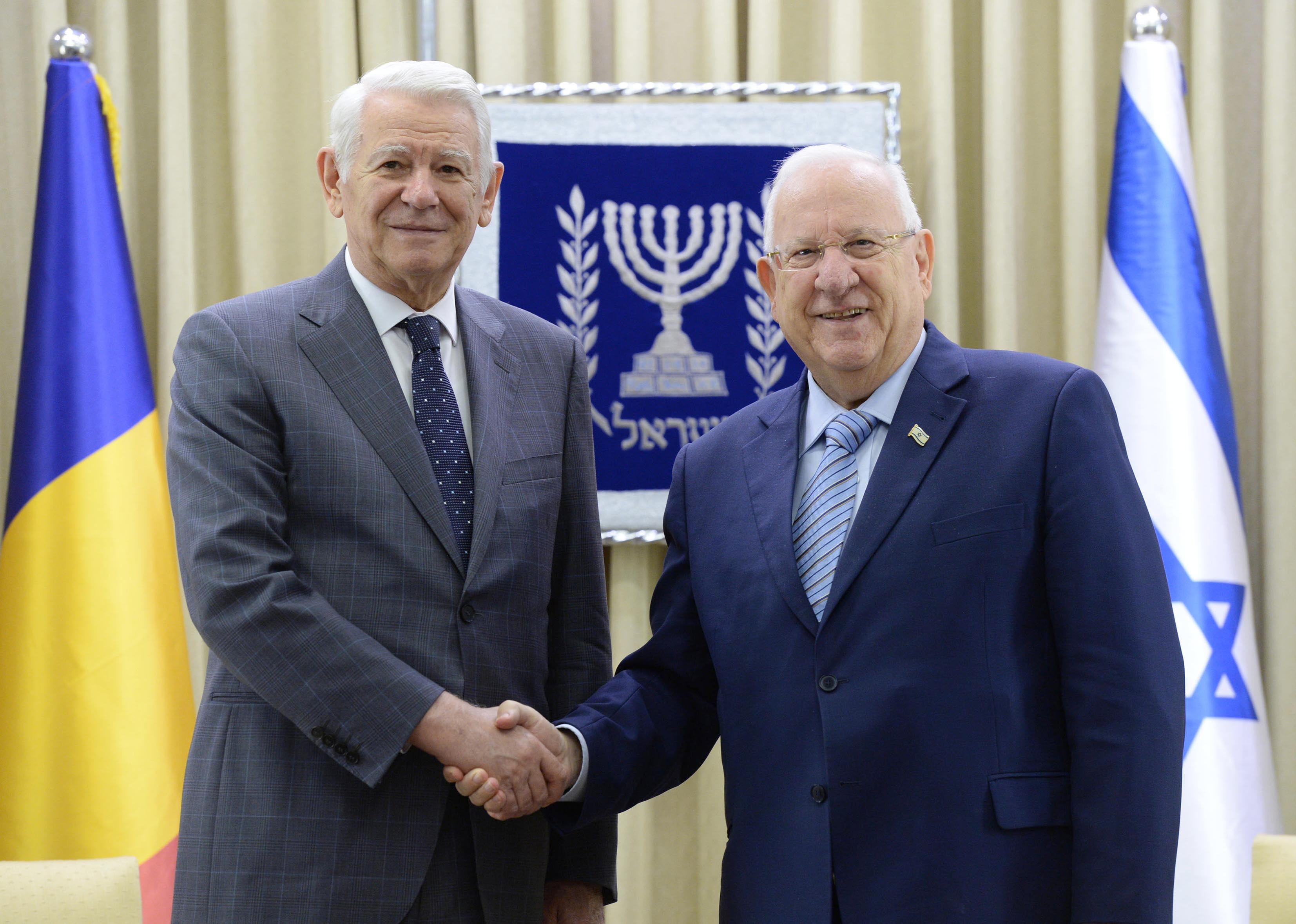 Reuven Rivlin meeting with the Romanian Foreign Minister The President of the State of Israel, Reuven Rivlin, receives the credentials of the new ambassadors from Italy, Denmark, the European Union and Nigeria - upon their entry as ambassadors of their respective countries in Israel and afterwards met with the Romanian Foreign Minister who visited Israel. Monday, Tuesday, October 23, 2017.